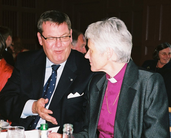 Olof Jarlman (born 1954), Swedish physician and chairman of "Akademiska Föreningen" (the Academic Society) in Lund, and Antje Jackelén (born 1955), bishop of Lund since 2007, at a dinner party at Akademiska Föreningen.